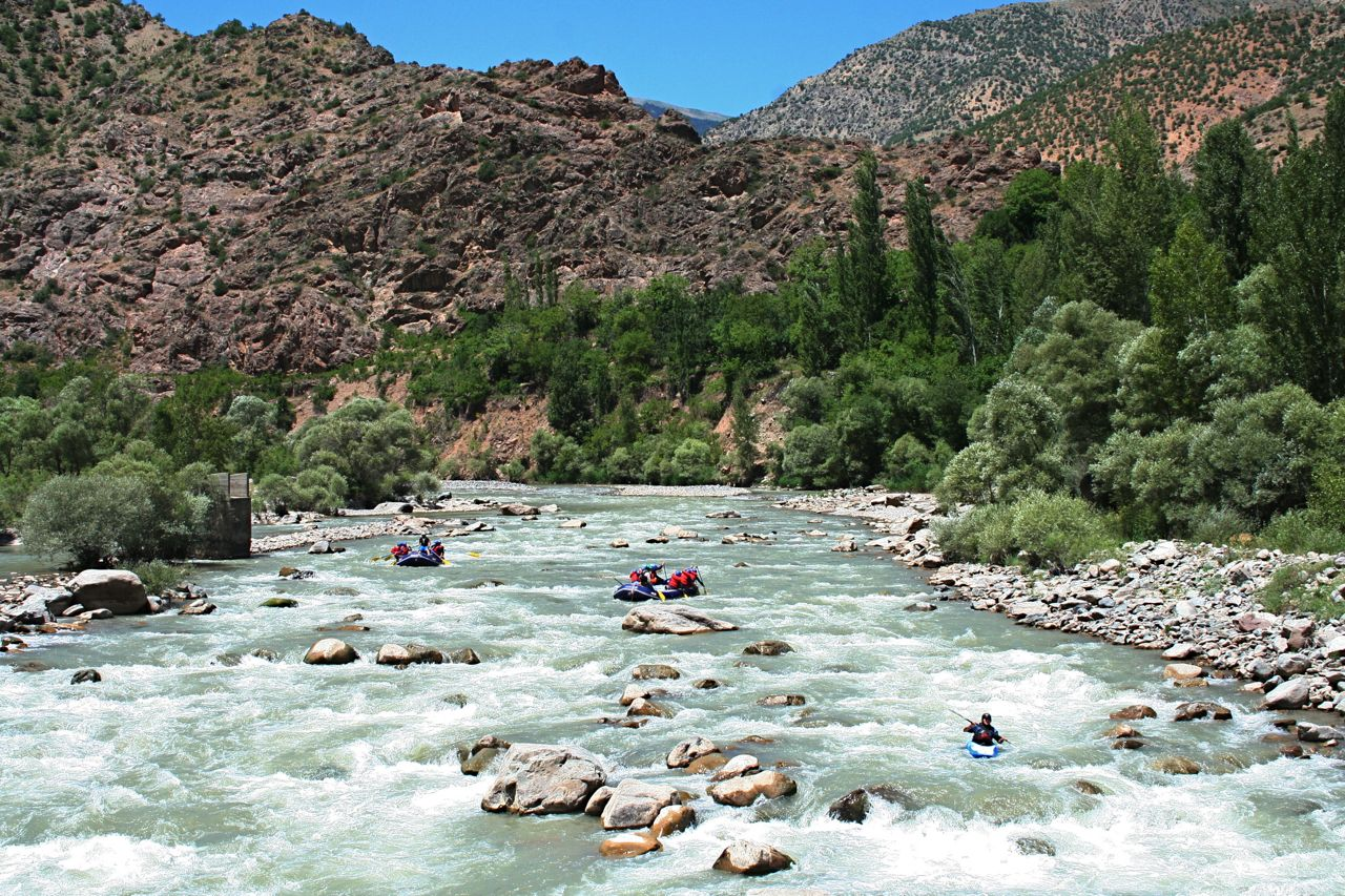 Rafting group on the Çoruh River upstream of Yusufeli.